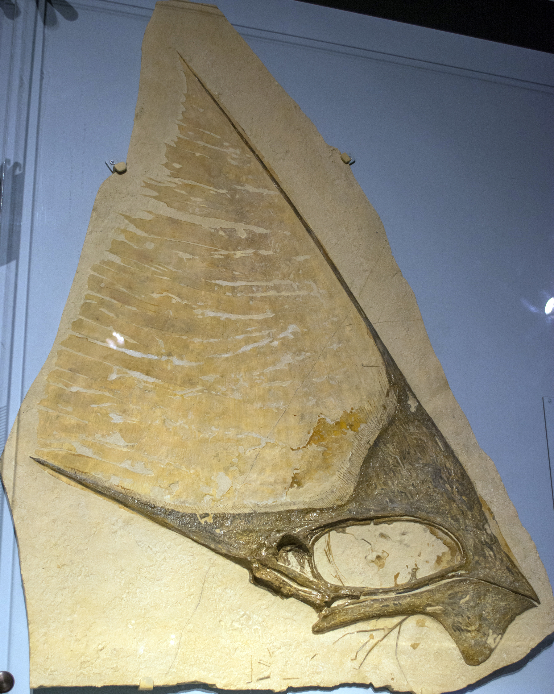 Cast of Tupandactylus imperator - Pterosaurs Flight in the Age of Dinosaurs